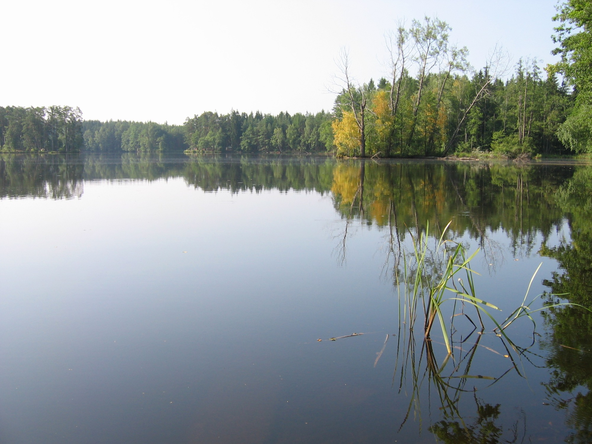 A lake in "Bohemian Canada" near Chlum u Třeboně in the South Bohemian Region